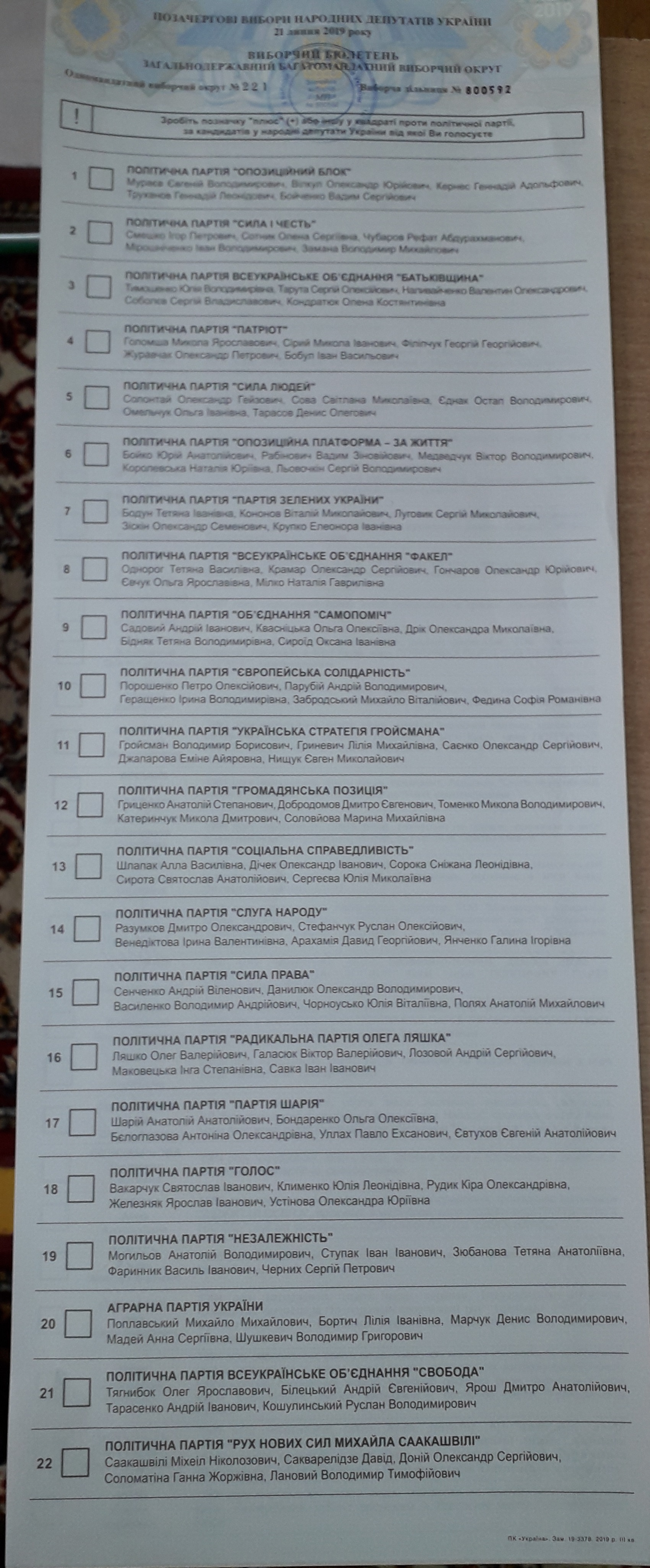 Voting ballot of the Ukrainian Parliamentary Election on July 21, 2019, polling station #800592, district 221 (Kyiv, Pechersk district).